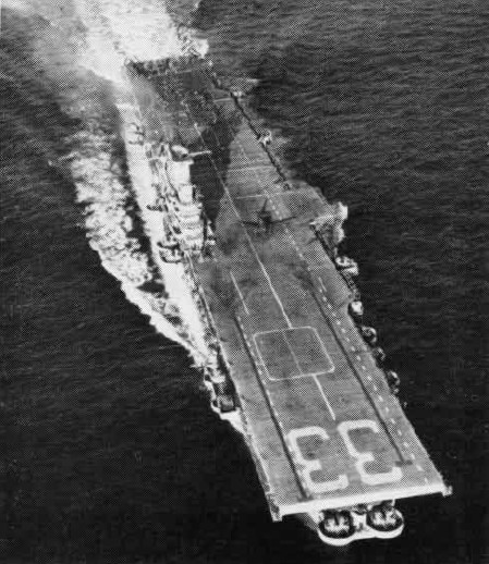 The U.S. Navy aircraft carrier USS Kearsarge (CVA-33) after her SCB-27A modernization, which took place at Puget Sound Naval Ship Yard, Bremerton, Washington (USA), between 23 February 1950 and March 1952. She recieved an angled deck in 1956-57.